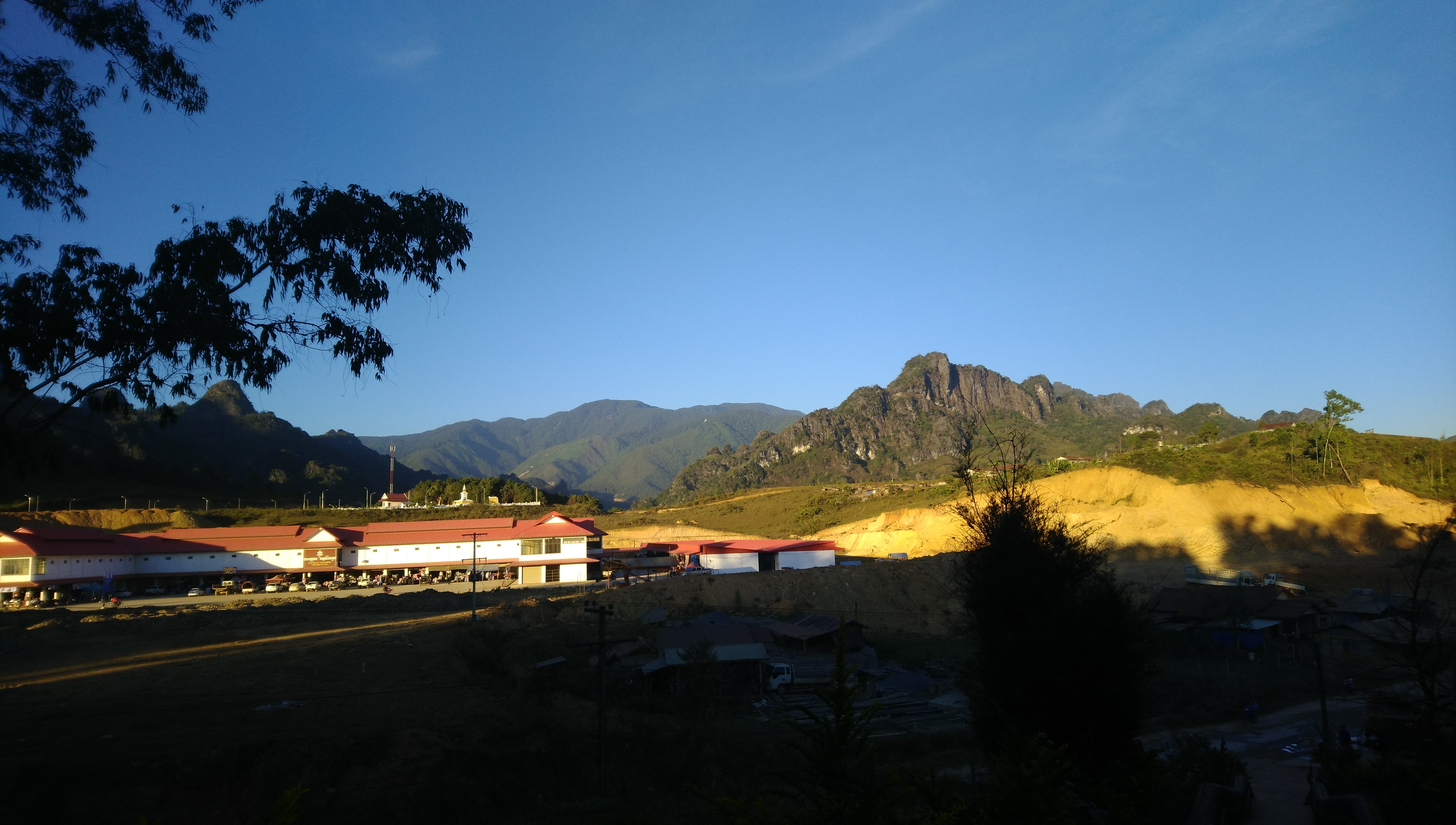 The actual peak is in the extension of the small landslide behind the western ridge of the elephant head mountain. The landslide and all the visible paths up are on the western flank of that upstream ridge.